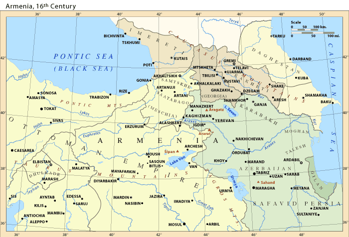 Armenia, 16th Century. Ottoman and Safavid rule in the Caucasus, 16th century.